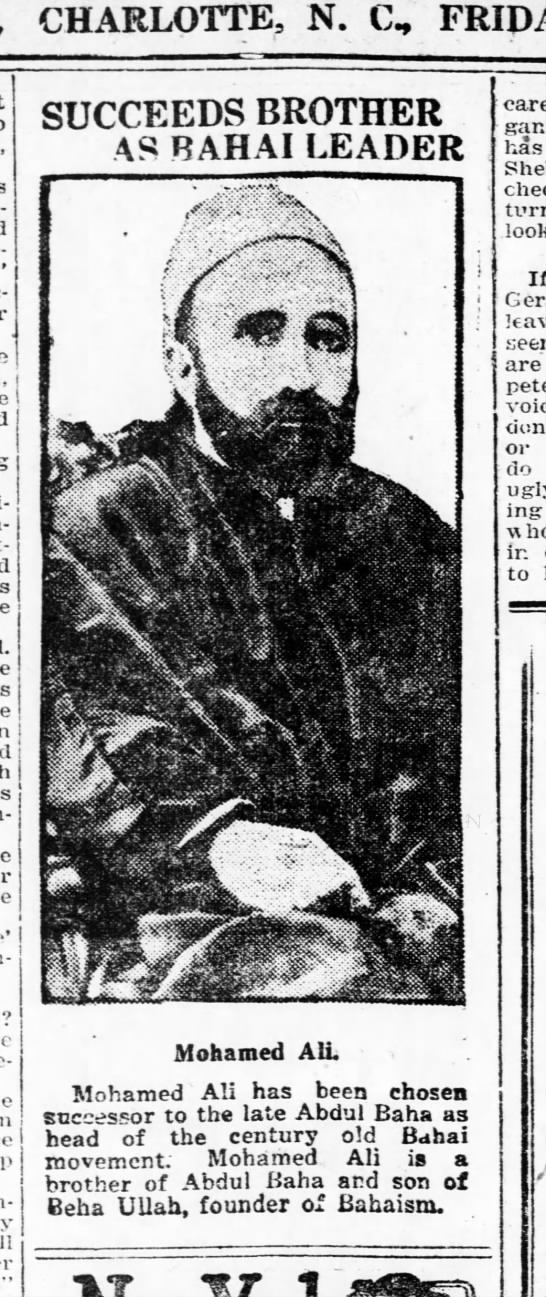 Mohammed Ali Effendi succeeds Late Abdul Baha, Jan 1922